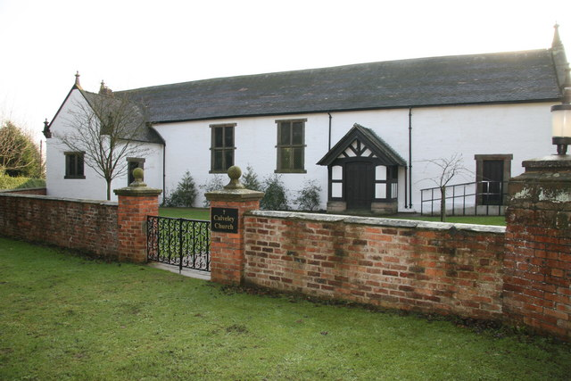 Calveley Chapel, Calveley, Cheshire. A 17th-century former coach house that in the 19th century was converted into a private chapel. It is now a chapel of ease to St Boniface's parish church, Bunbury.